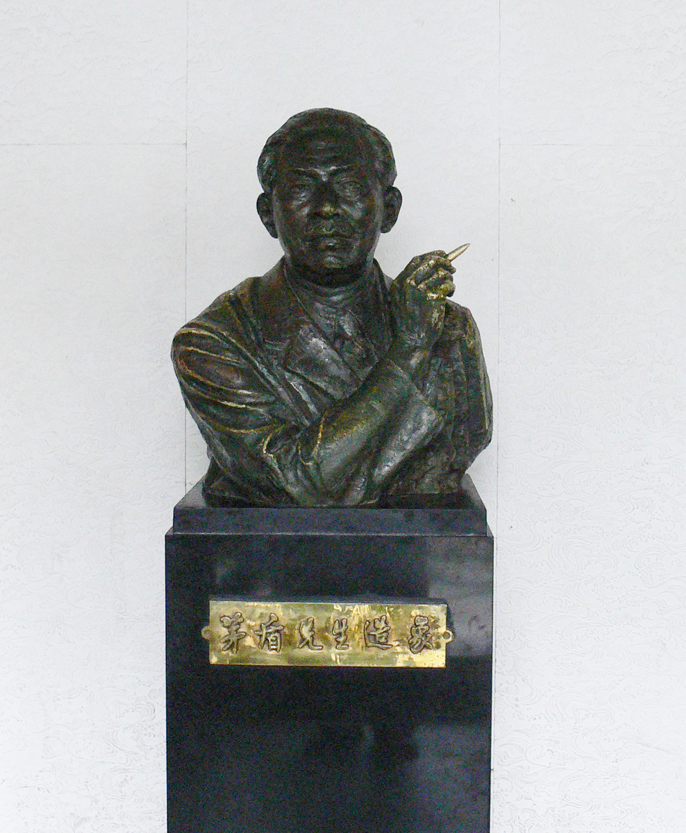 Bronze bust of Mao Dun at his former residence in Wuzhen town 乌镇茅盾故居茅盾铜像